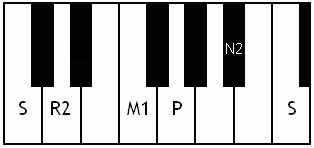 Musical notes of the pentatonic ragam Madhyamavati of Carnatic music shown in a keyboard layout. See swaras in Carnatic music for details on the notation used. In this image of Madhyamavati scale, C is used as Shadjam for simplicity sake only. In Carnatic music any note can be the tonic note (sruti), which is taken as Shadjam note. This image is for use in Wikipedia ragam articles and articles related to Carnatic music.